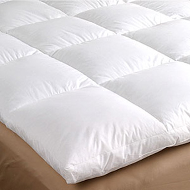 Bedding comforter or duvet.